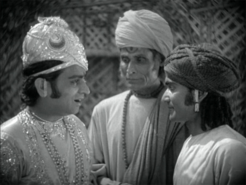 A scene from A Throw of the Dice